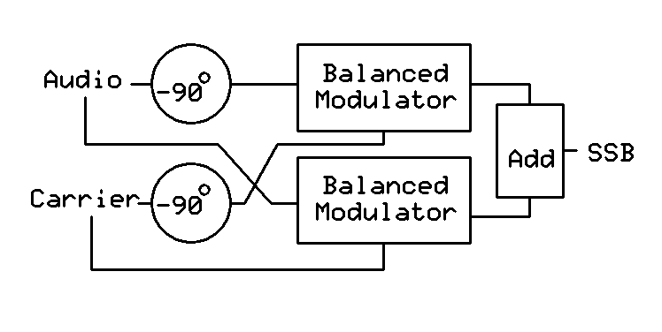 Block diagram showing SSB by phasing method.